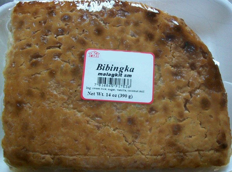 Picture of a dessert called Bibingka. Ingredients include sweet rice, sugar, vanilla, coconut milk.